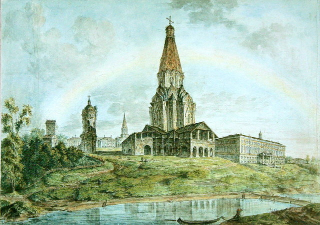 en: Fedor Alekseev Title